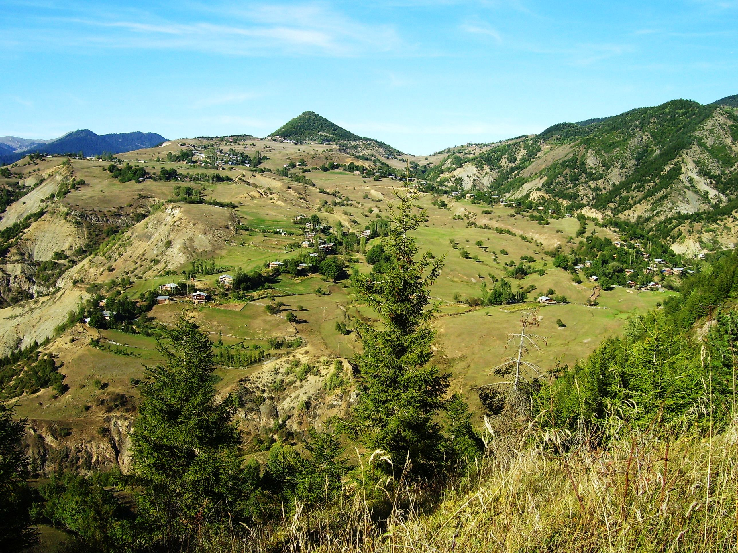 General view of Çoraklı, Şavşat.